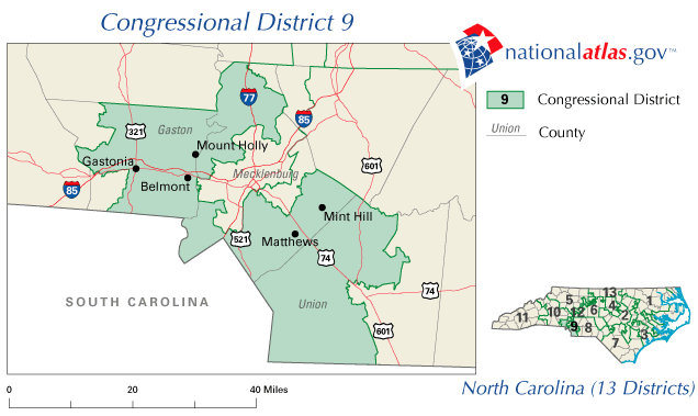 North Carolina's 9th congressional district prior to 2012 redistricting